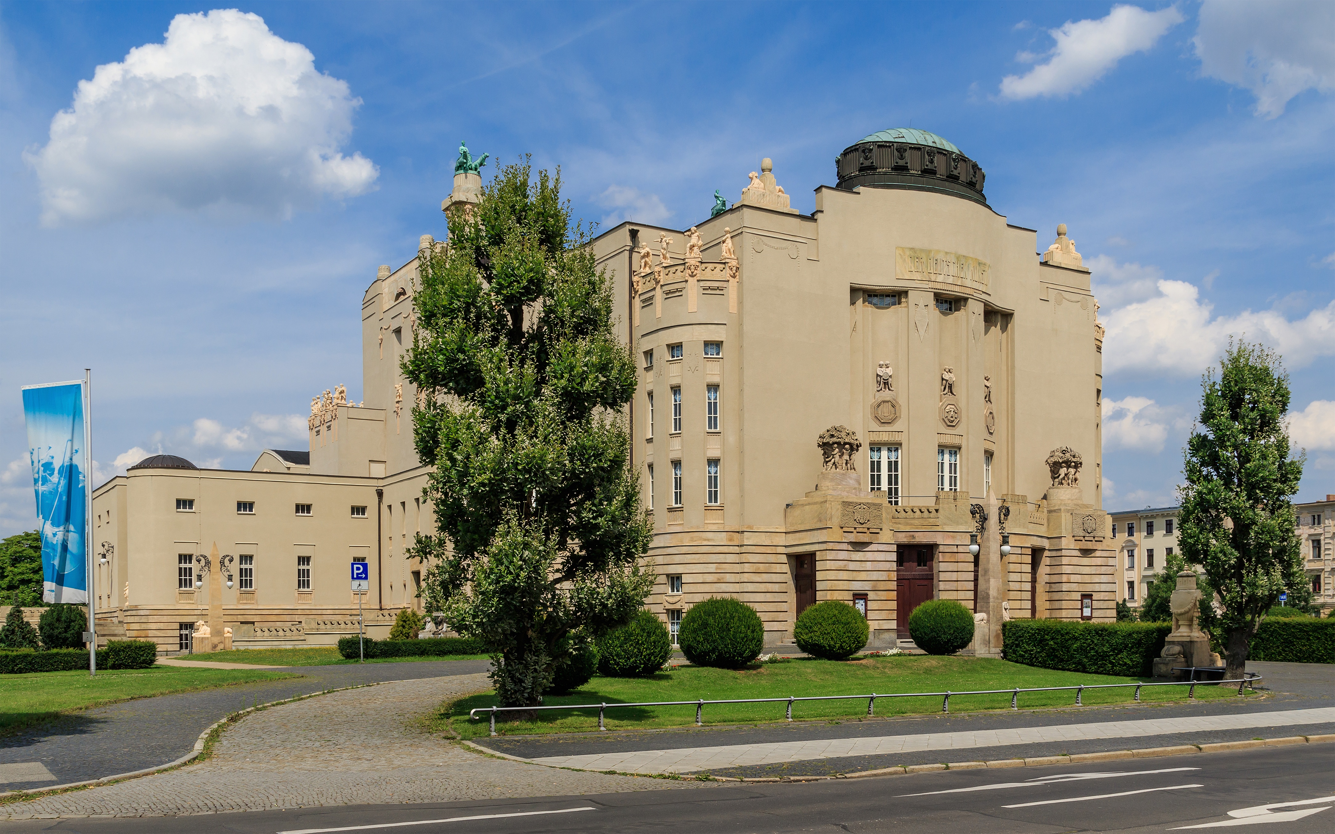 Building of the Staatstheater in Cottbus (Germany)